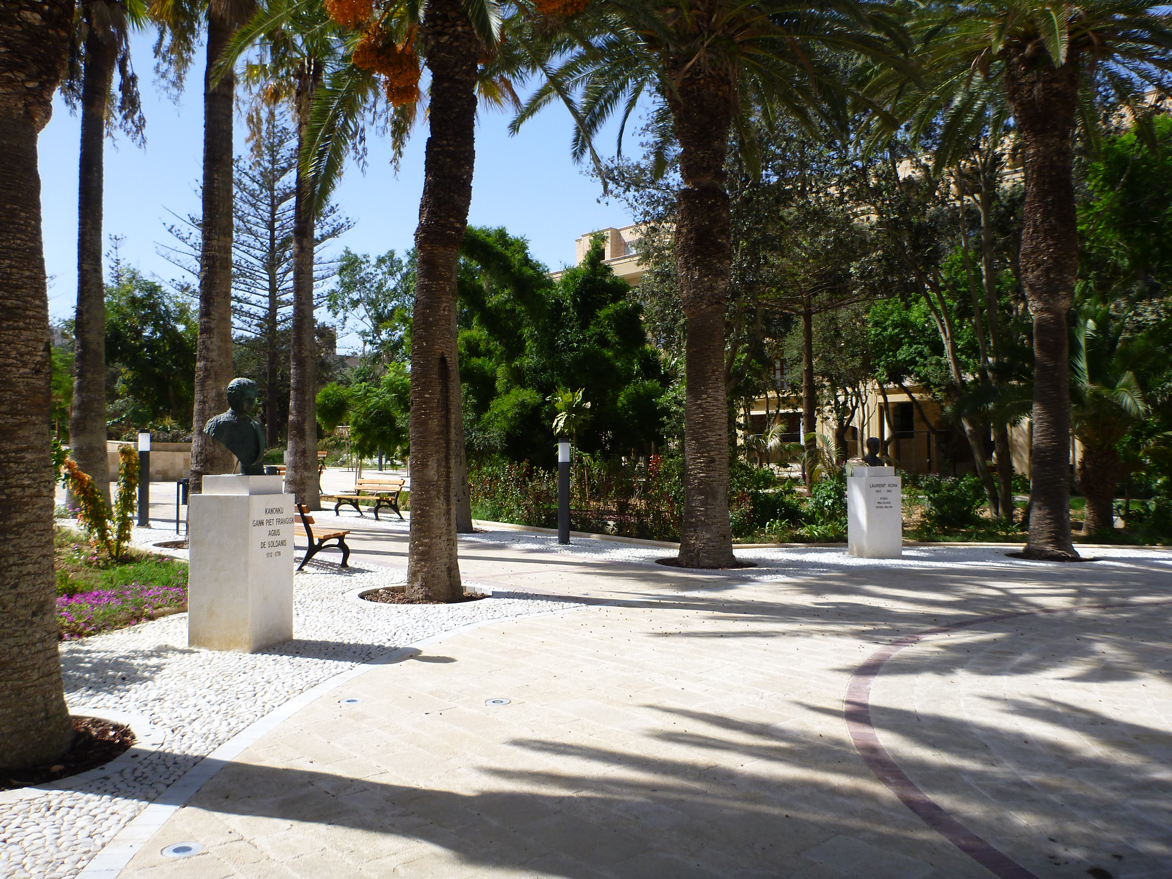 Busts of Kanonku Gann Piet Frangsik and Laurent Ropa in a Park in Viktoria (Malta) on Island Gozo